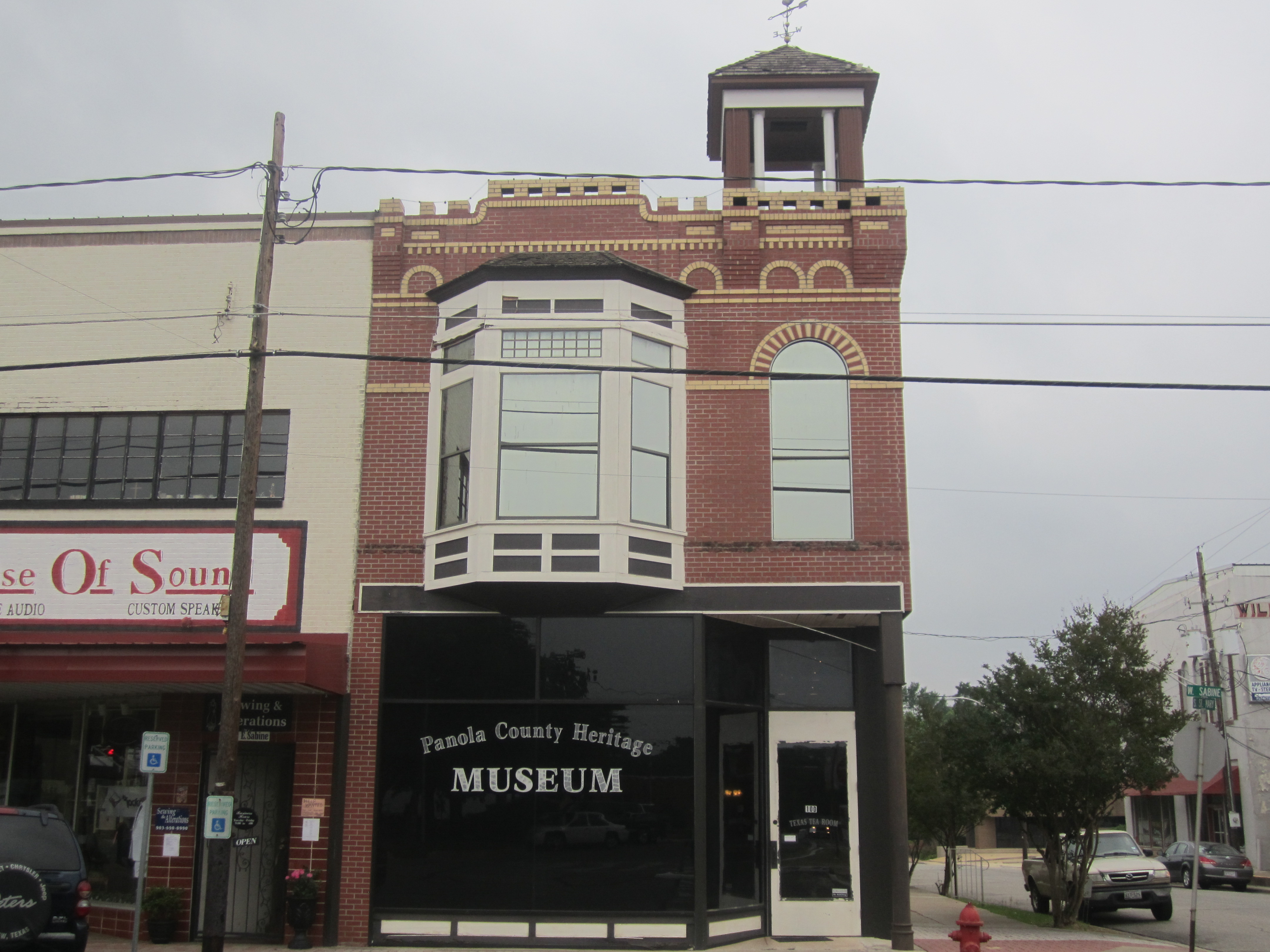 I took photo with Canon camera in Carthage, TX.